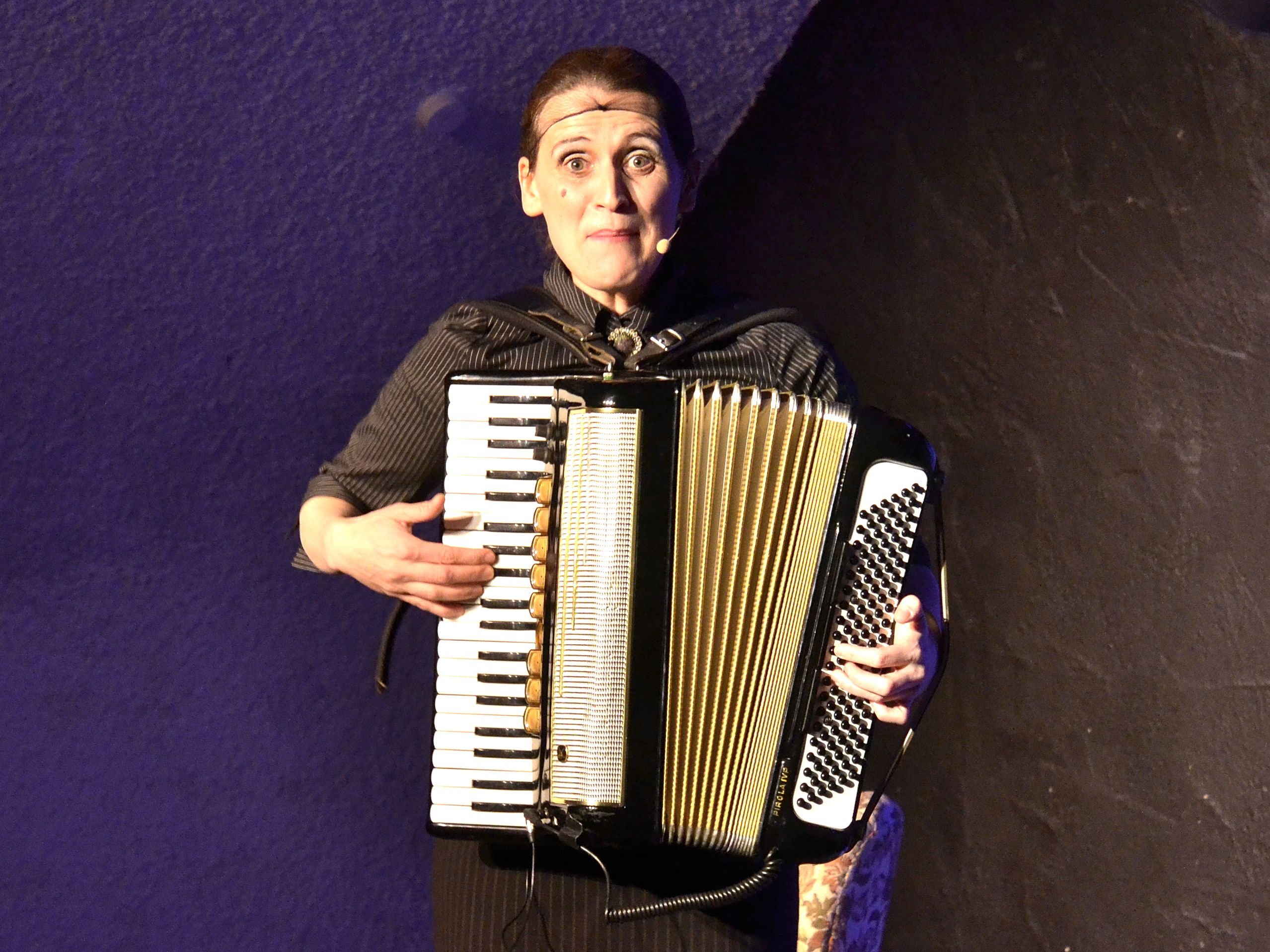 at KleinKunstKreis Donaueschingen, Germany